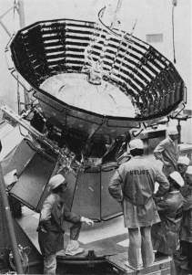 Helios 2 being inspected.